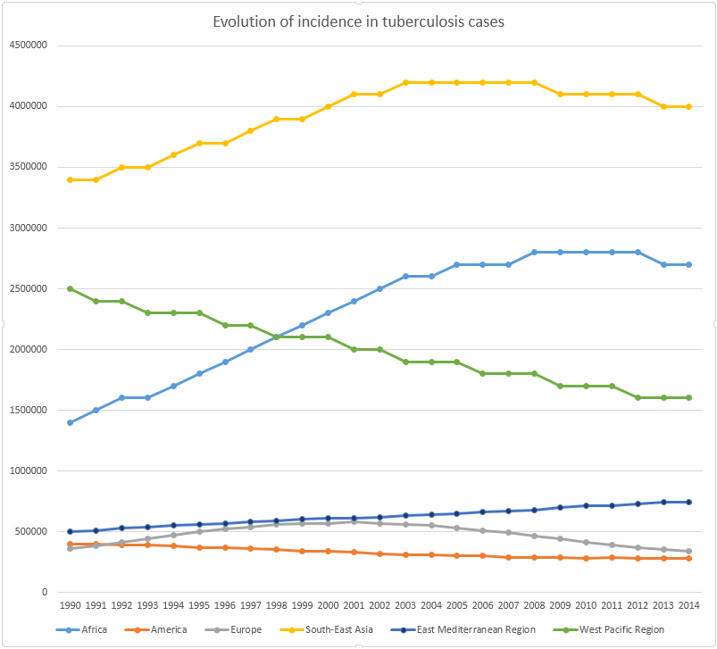 Evolition of incidence of tuberculosis cases per WHO region for the period 1990-2014.[1]